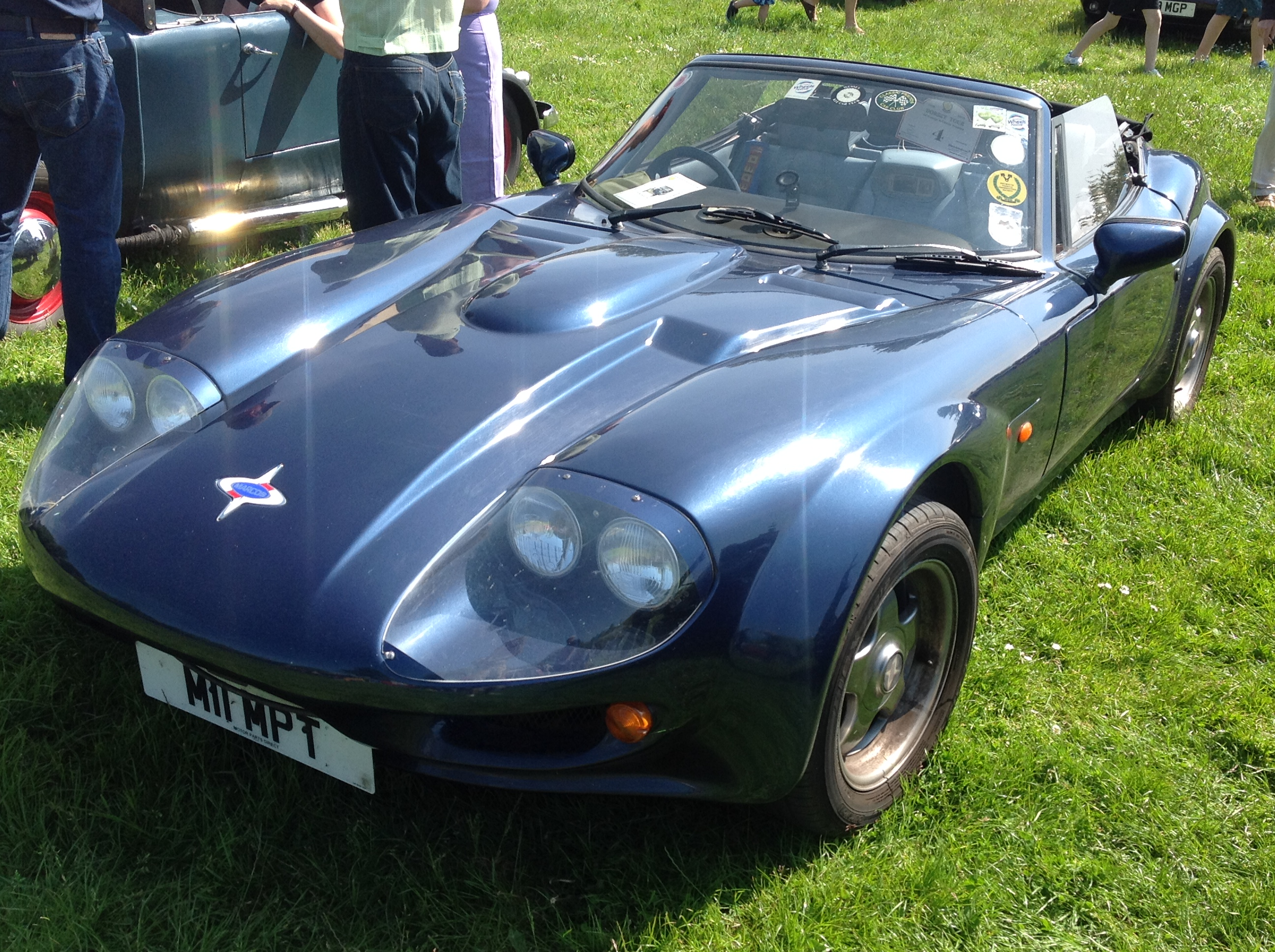 1994/1995 Marcos Mantara Spyder spotted at Weymouth Vehicle Preservation Society's "Dorset Tour" on 29 May 2016. First registered in October 1994, 3946cc Rover V8 and 1075kg is a good combination.